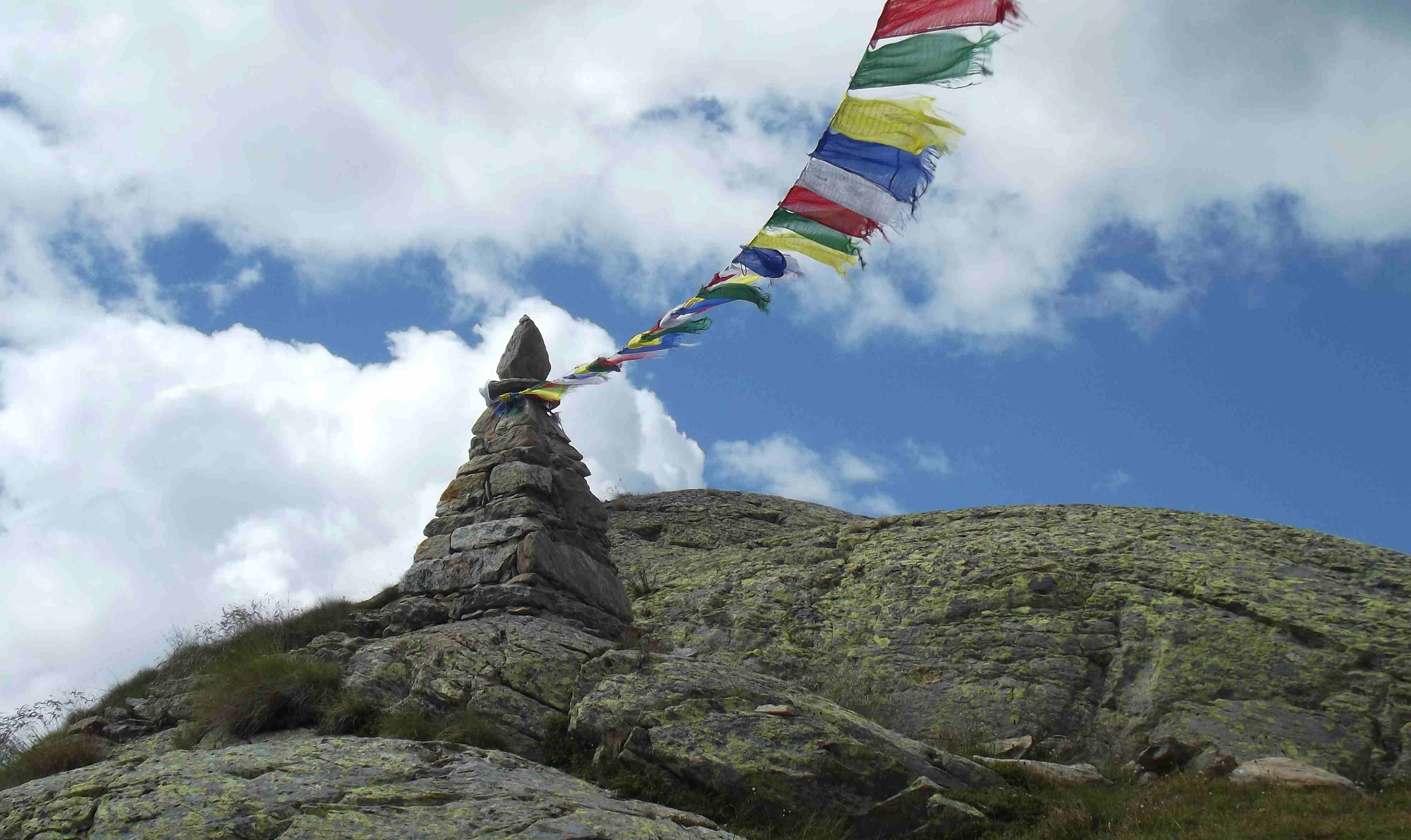 Colle Lazoney (Alpi Biellesi, Italy): cairn and prayer flags